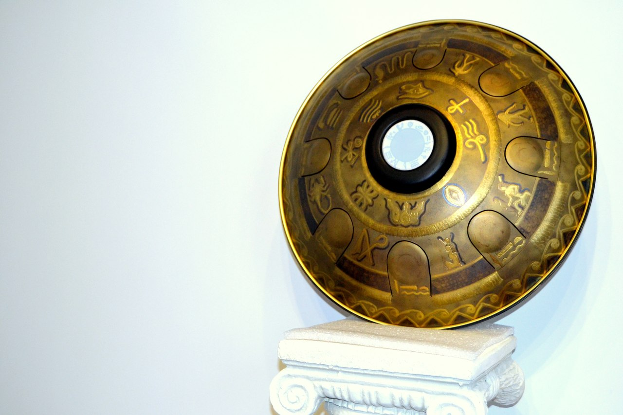 Vadjraghanta. Shape Vadjra GUtam